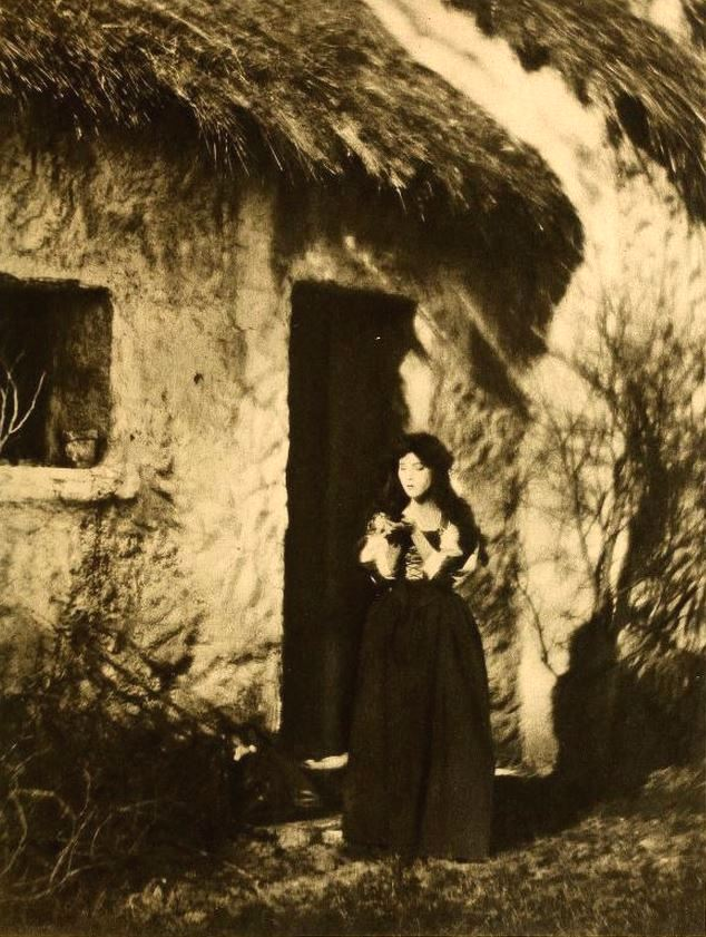 Still from the American film Lorna Doone (1922) with Madge Bellamy, on page 29 of the December 1922 Shadowland.